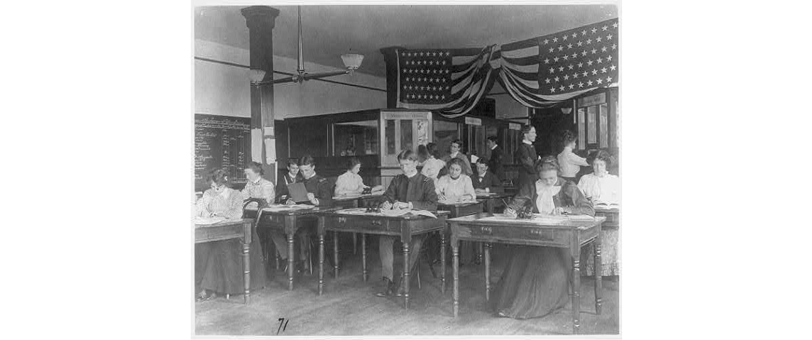 Classroom scene at Business High School in Washington, D.C. - a public school - perhaps from 19th century.